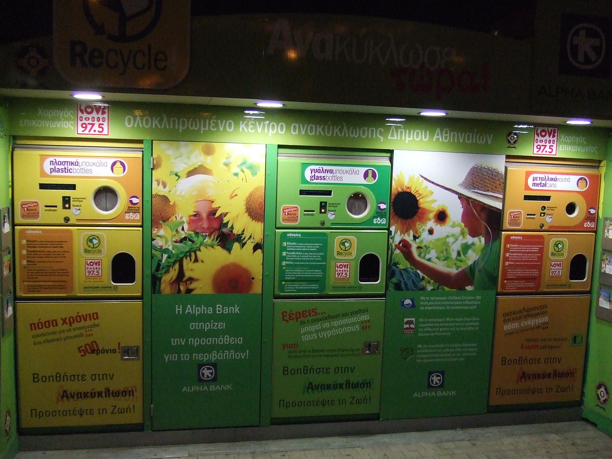 Recycling machine in Athens.